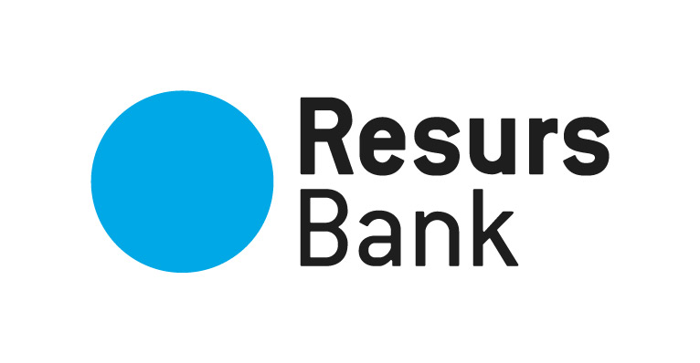 Resurs Bank logotype